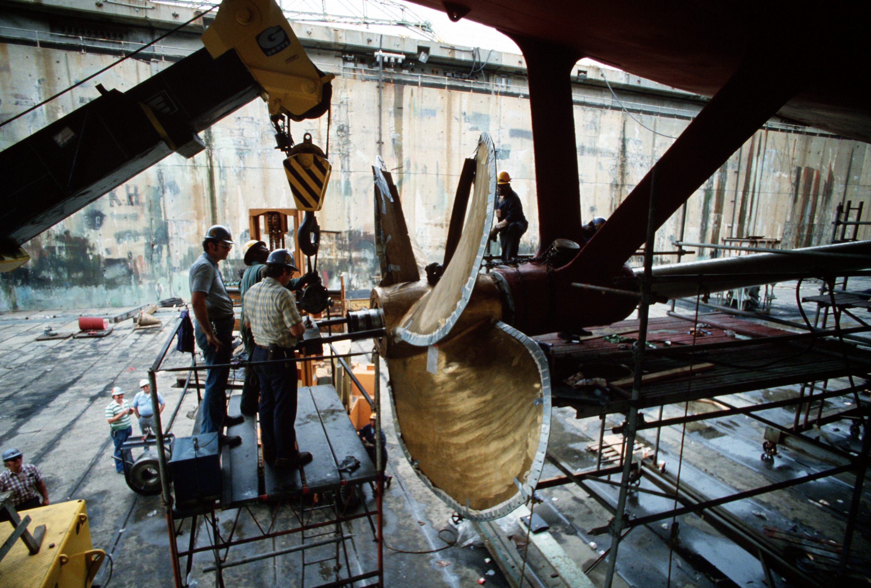 U.S. Navy mechanics work on the screw propeller of the dry docked guided missile destroyer USS Claude V. Ricketts (DDG-5) during its overhaul at the Norfolk Naval Shipyard, Virginia (USA), in 1982.